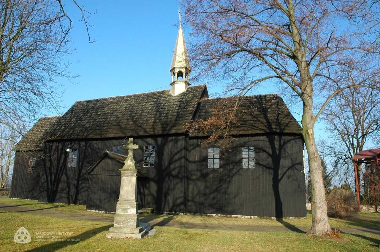 St Michael church in Dębno Królewskie